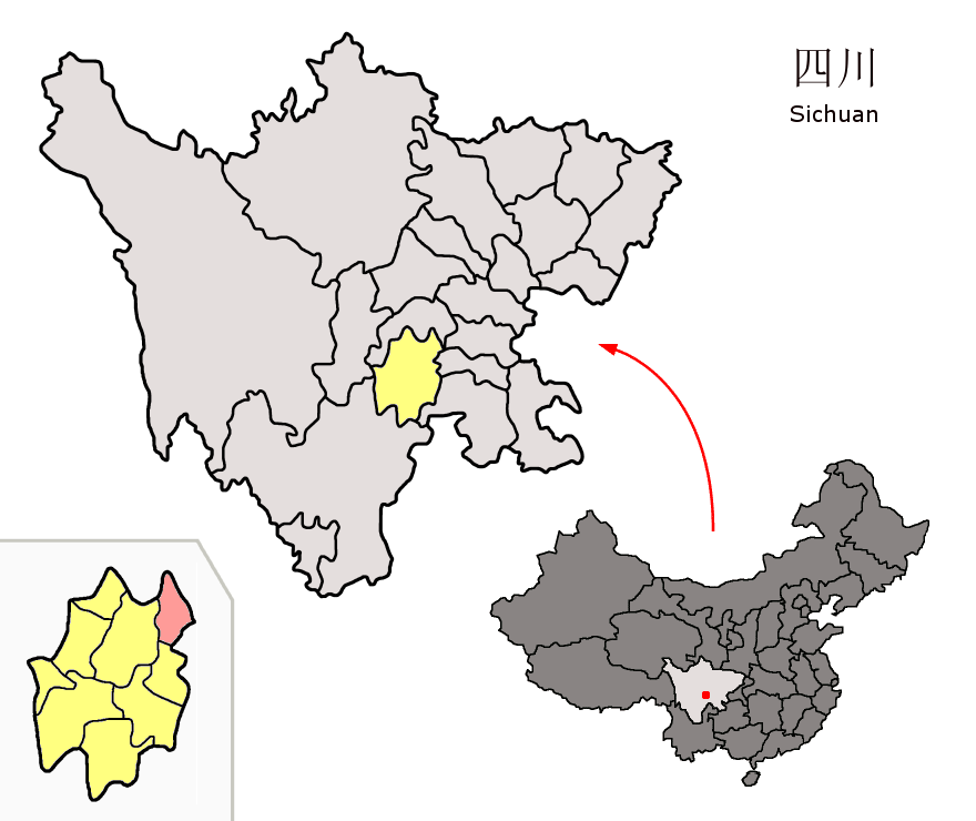 Location of Jingyan County (pink) and Leshan Prefecture (yellow) within Sichuan province of China Map drawn in september 2007 using various sources, mainly : Sichuan province administrative regions GIS data: 1:1M, County level, 1990 Sichuan Counties map from Map of Yunnan & Sichuan Area from